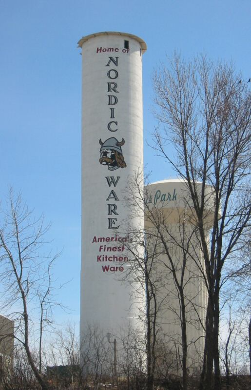 Picture of the Peavey-Haglin Experimental Concrete Grain Elevator in St. Louis Park, Minnesota, in April 2006.